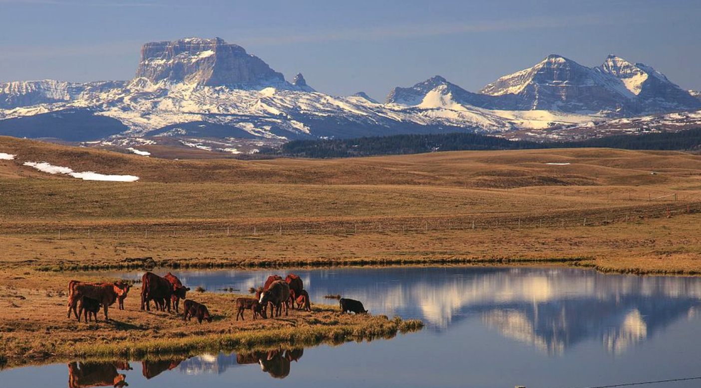 The Rockies from the East...Hwy 5